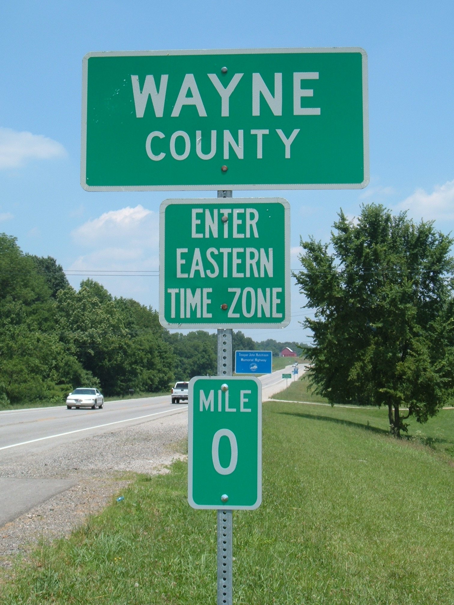 Photo of the Wayne County, Kentucky county line sign at the Wayne/Clinton border along KY 90, southwest of Monticello. Note the time zone change indication.